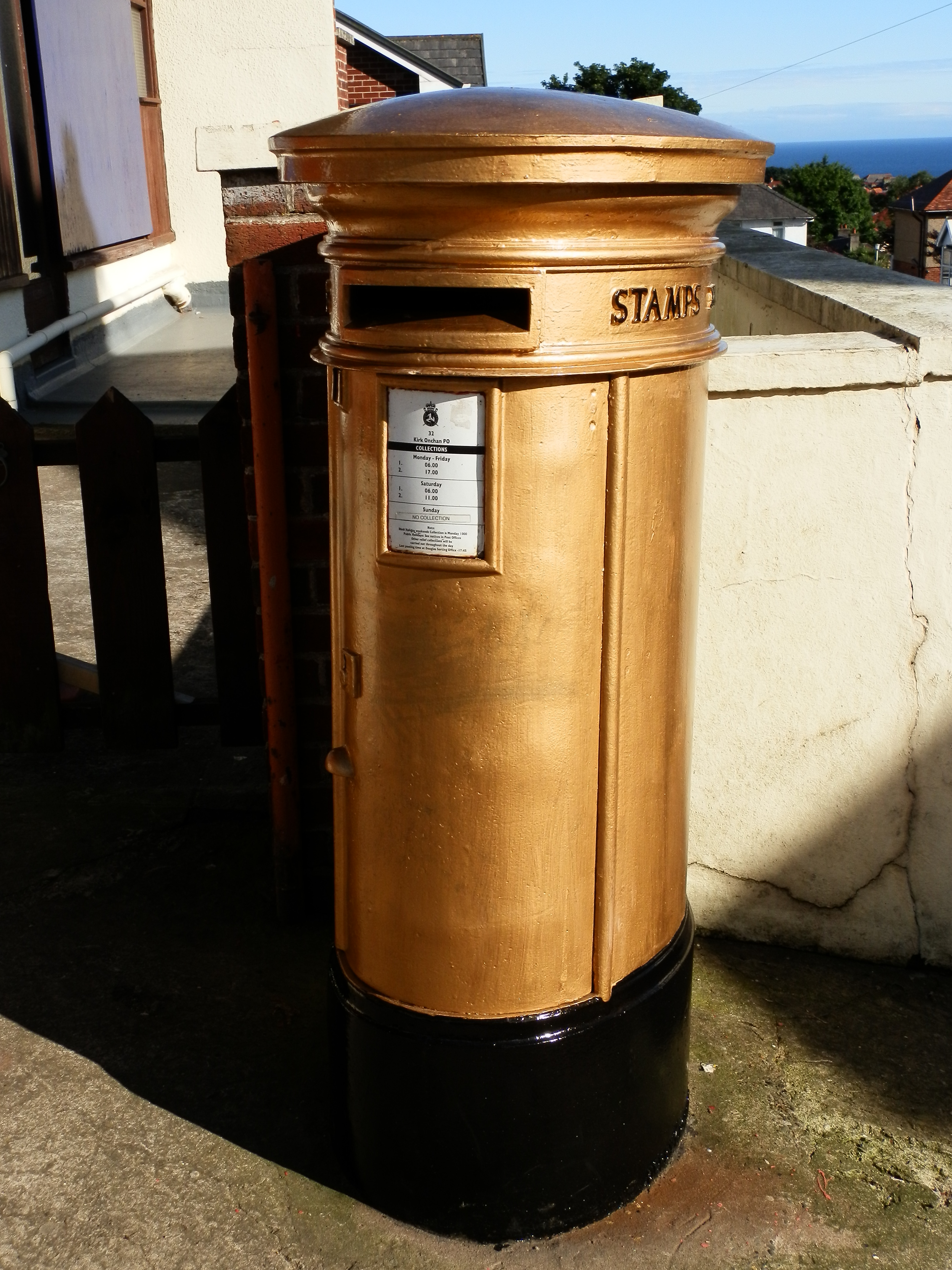 The Isle of Man Post Office gold postbox for Peter Kennaugh at Kirk Onchan Post Office in the village of Onchan.